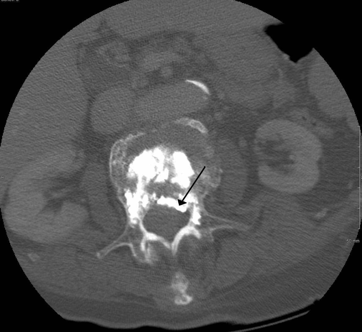 A complication of vertebroplasty (cement entered the spinal channel and is pressing on the spin)